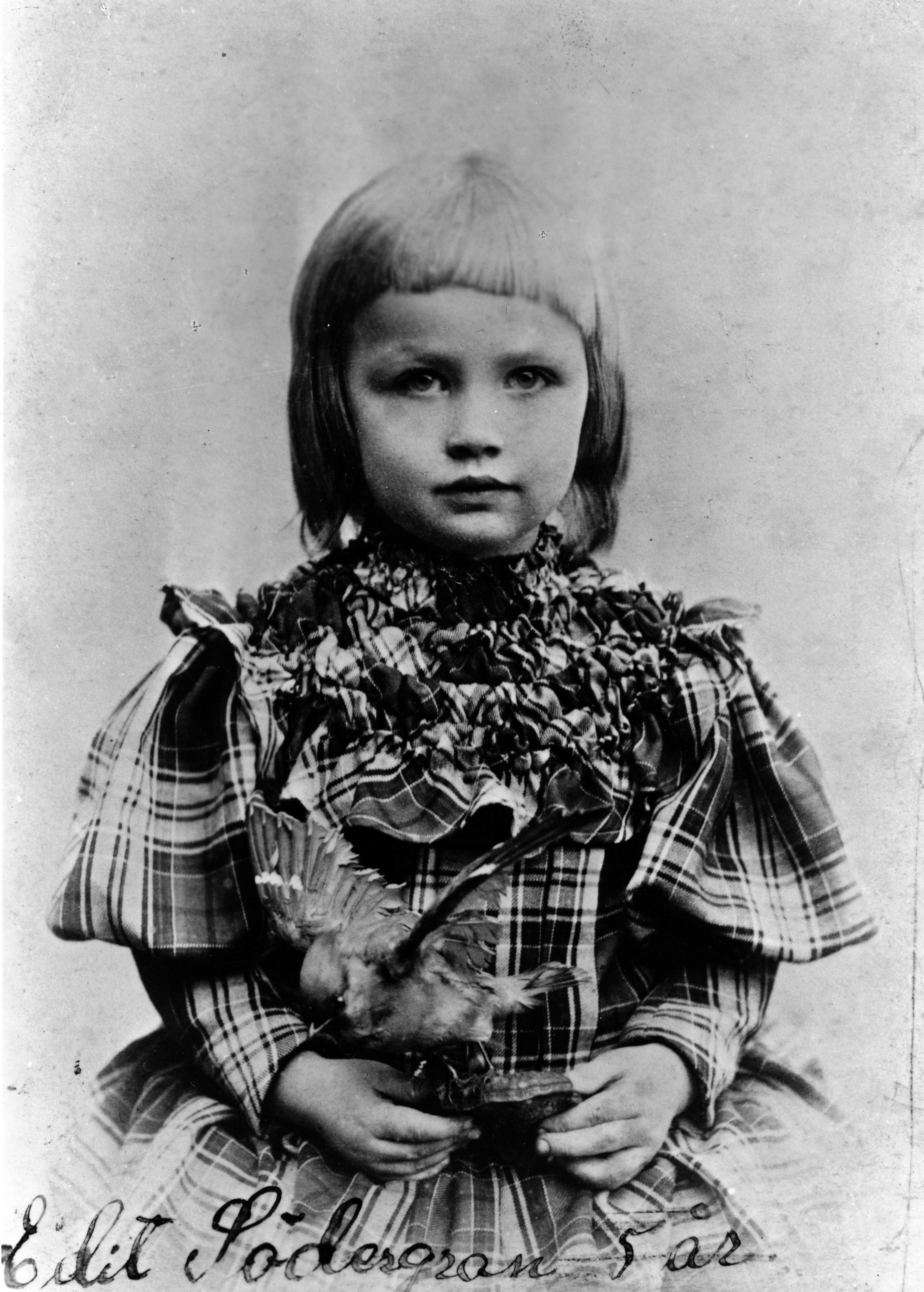 Edith Södergran 5 år Edith Södergrans samling Signum: slsa566_391 Foto: Okänd / Unknown Svenska litteratursällskapet i Finland